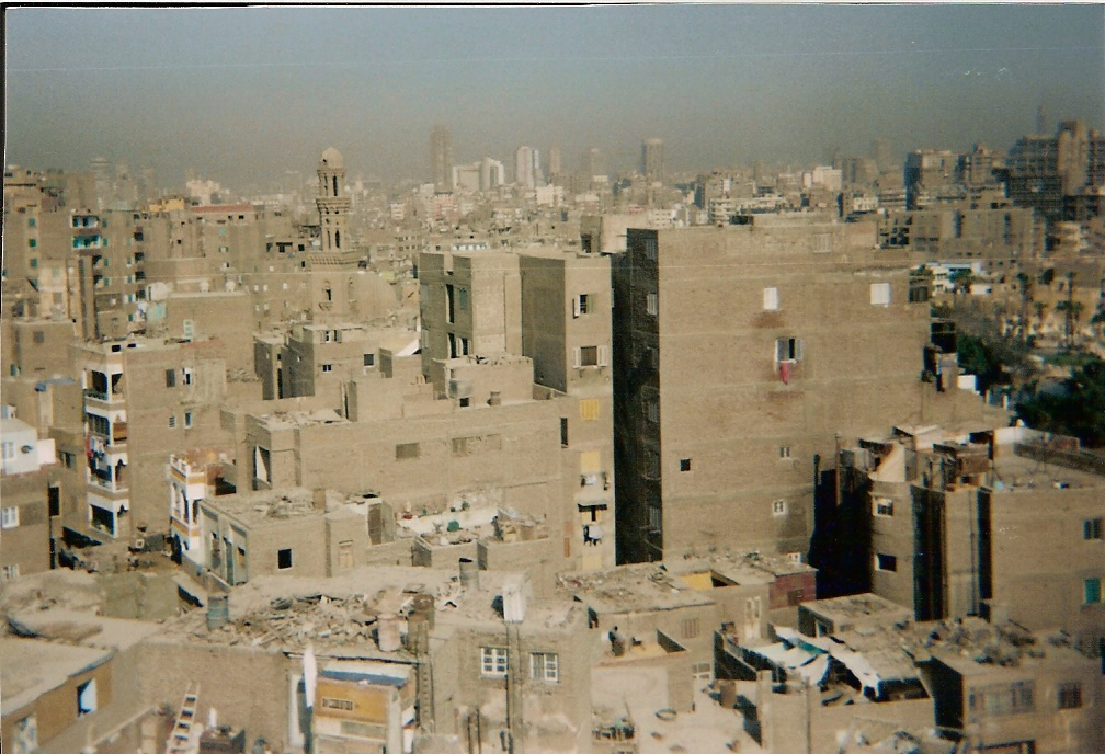 View of Cairo, Egypt